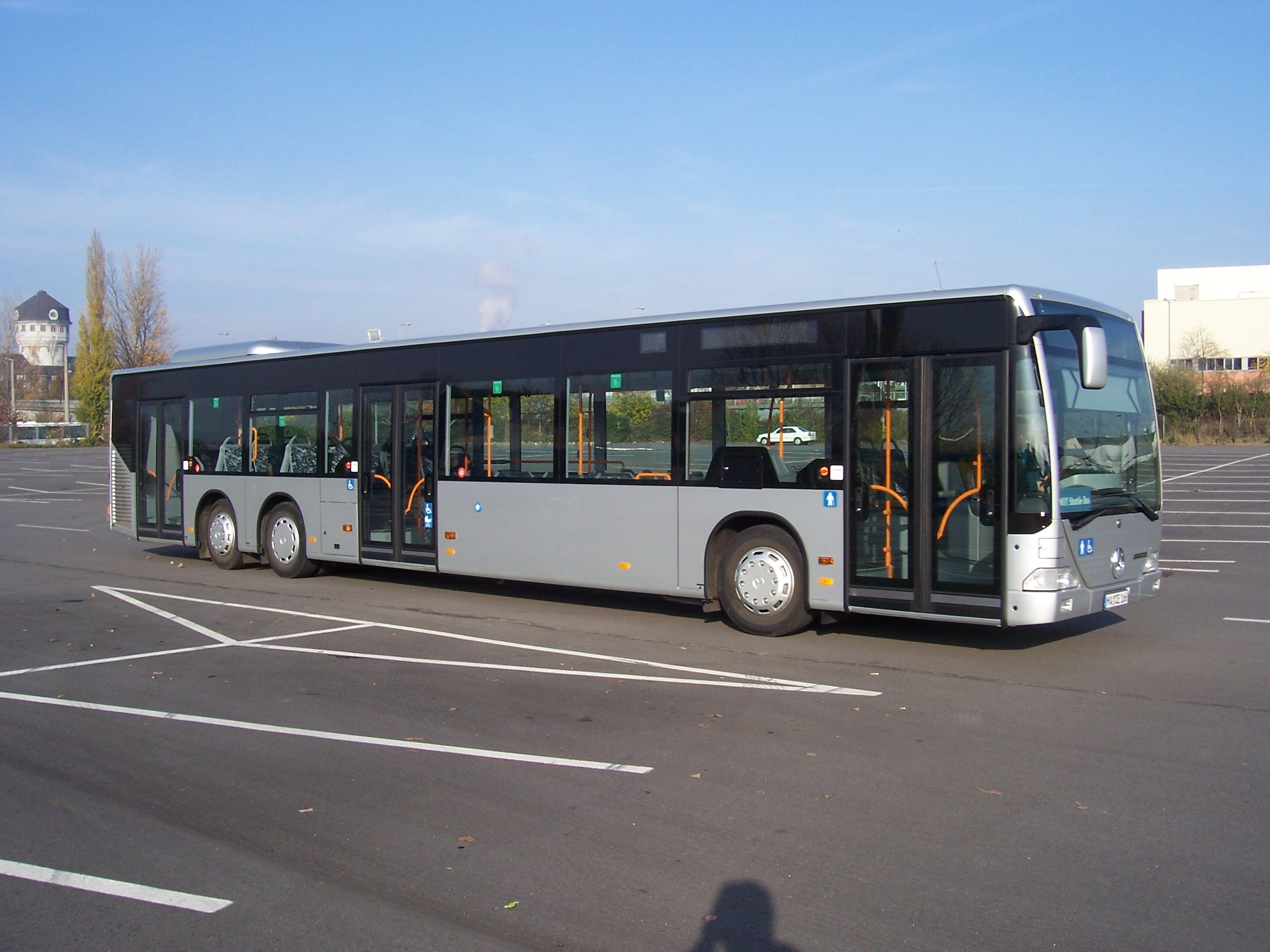 An EvoBus/Mercedes-Benz Citaro at MOT 2005 in Mannheim, Germany My own photo from 13-nov-2005